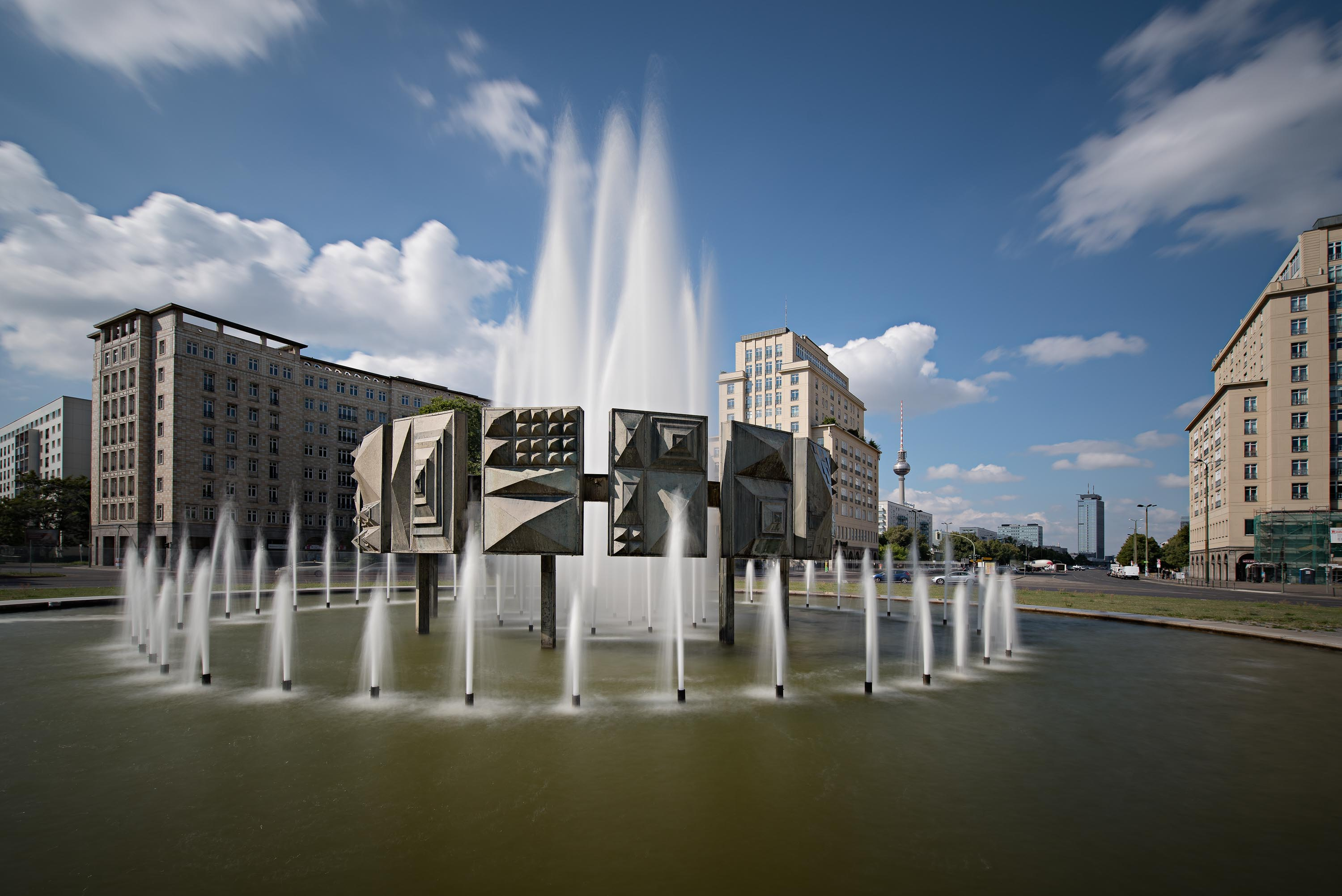 Strausberger Platz with fountain, Haus des Kindes, TV-Tower, Hotel Park Inn and Haus Berlin.This is a photograph of an architectural monument.